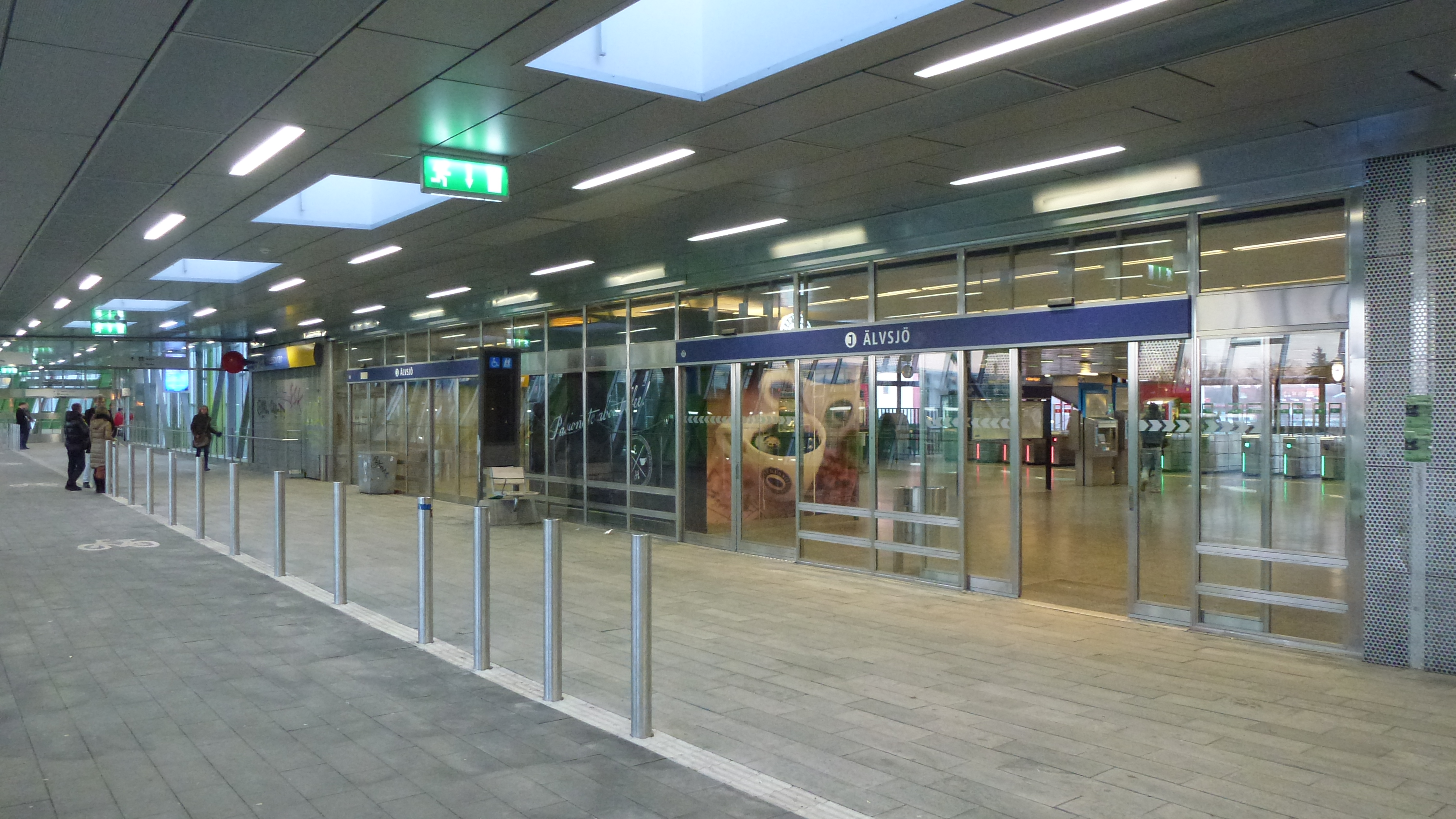 Commuter train station Älvsjö, Stockholm